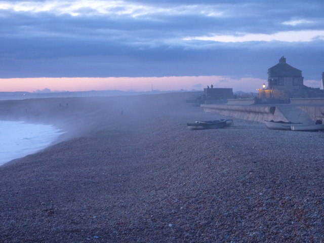 Chesil Cove, Dusk The light shines outside the very welcoming Cove House Inn.